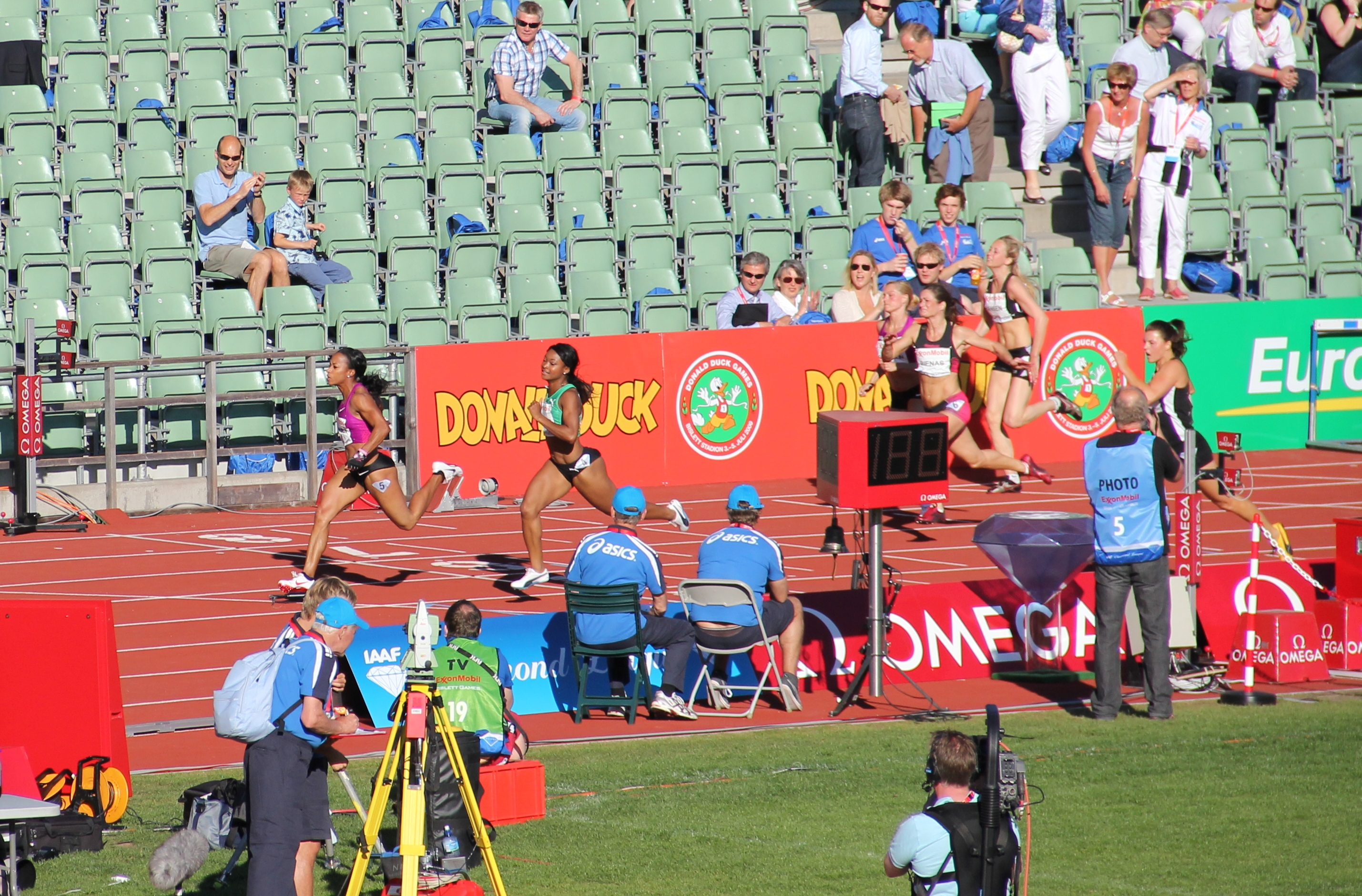 Ezinne Okparaebo with a 11.26 national record 100 meter sprint at Bislett Games 2010. Mikele Barber won the race